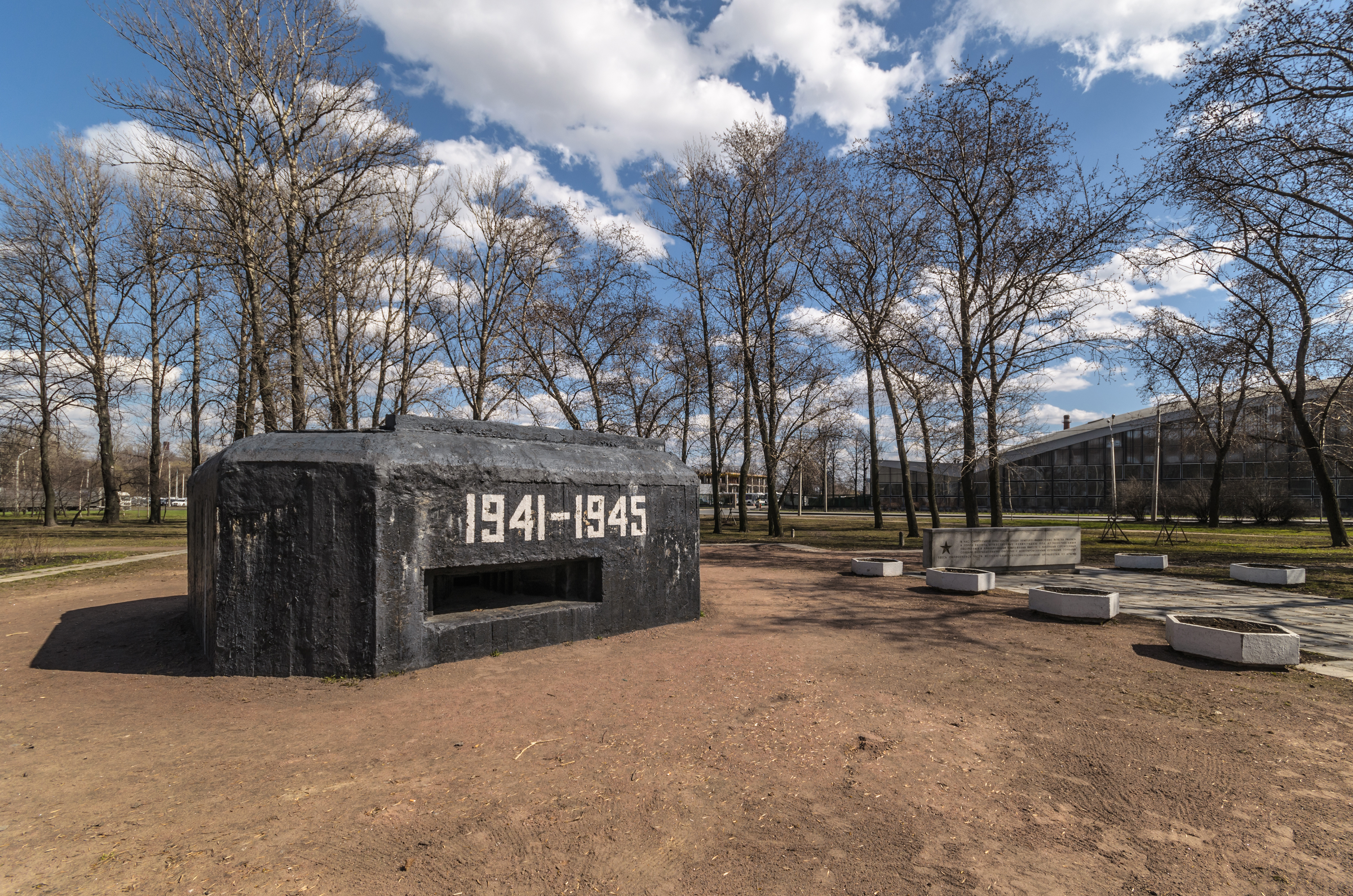 DOT (pillbox) monument on Stachek avenue in Saint Petersburg